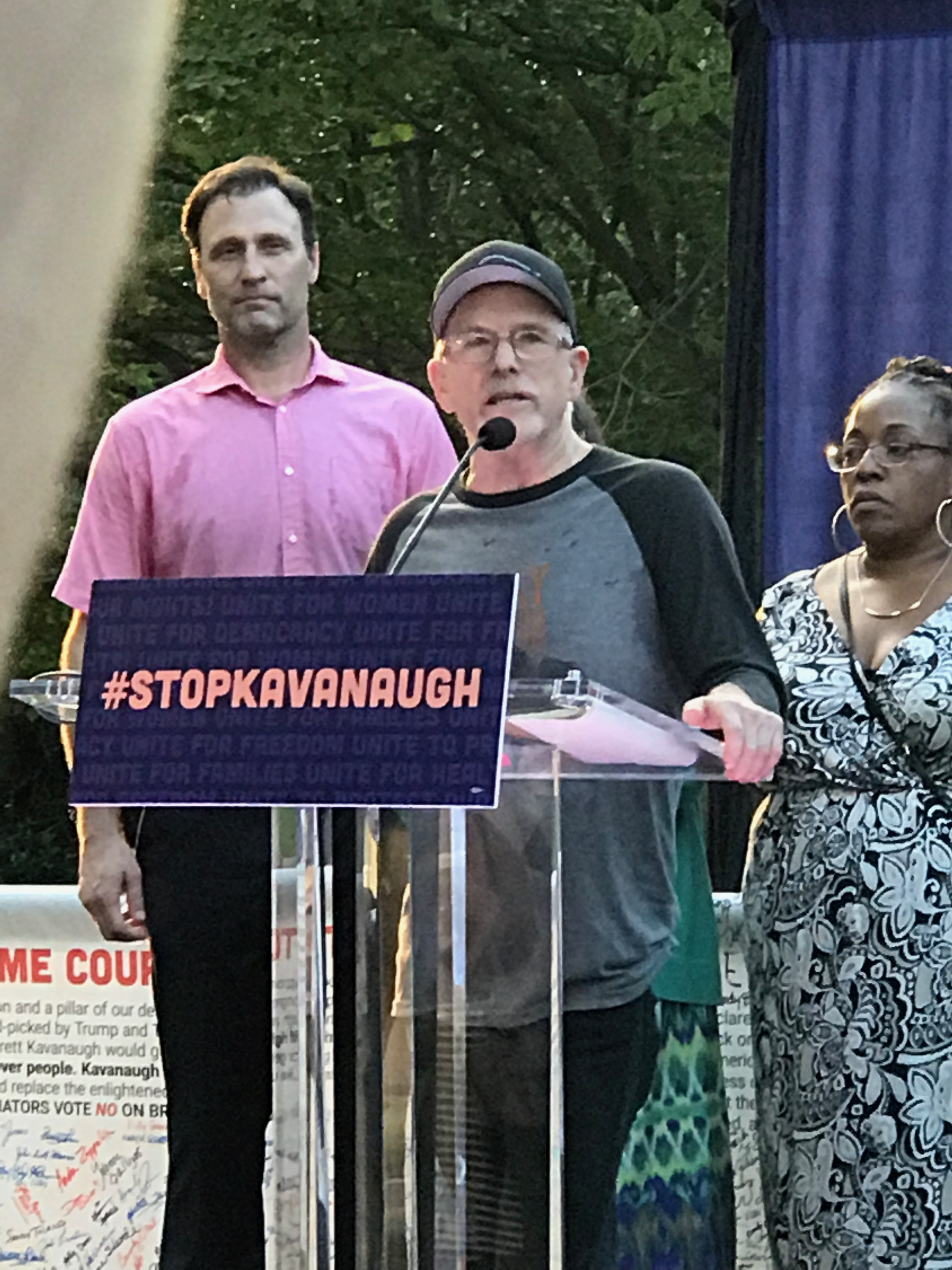 Stop Kavanaugh Rally on US Capitol Grounds - September 4, 2018. Iditarod champion Jeff King, with a delegation of Alaskans opposing the Kavanaugh nomination.